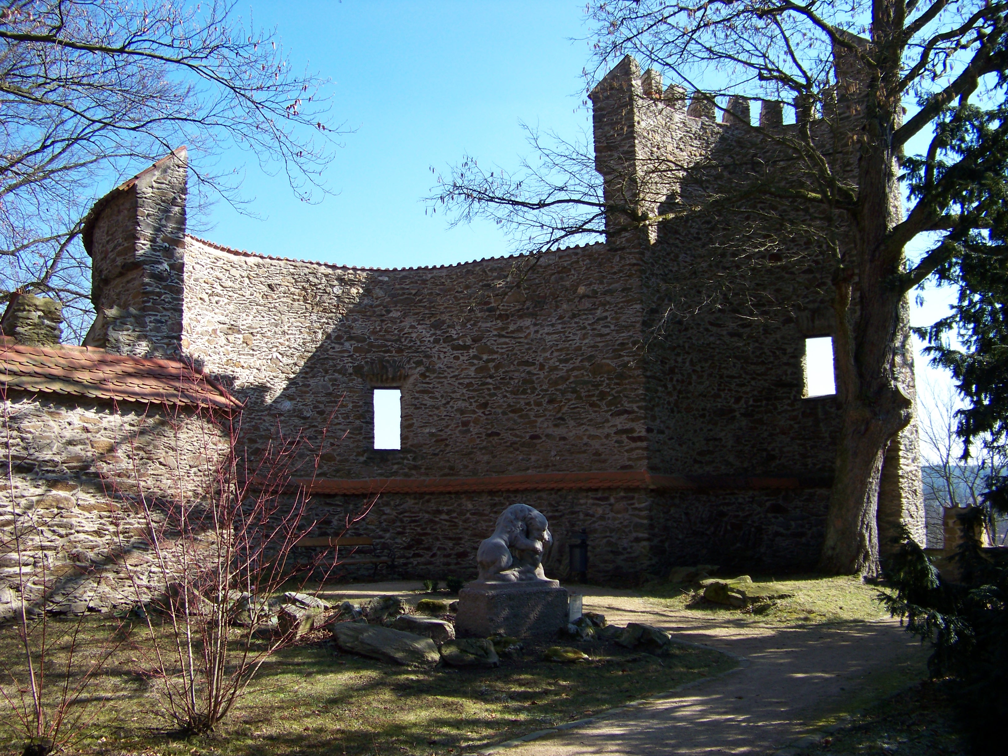 Zruč nad Sázavou, Kutná Hora District, Central Bohemian Region, the Czech Republic. The castle, a bastion and a statue of lion.